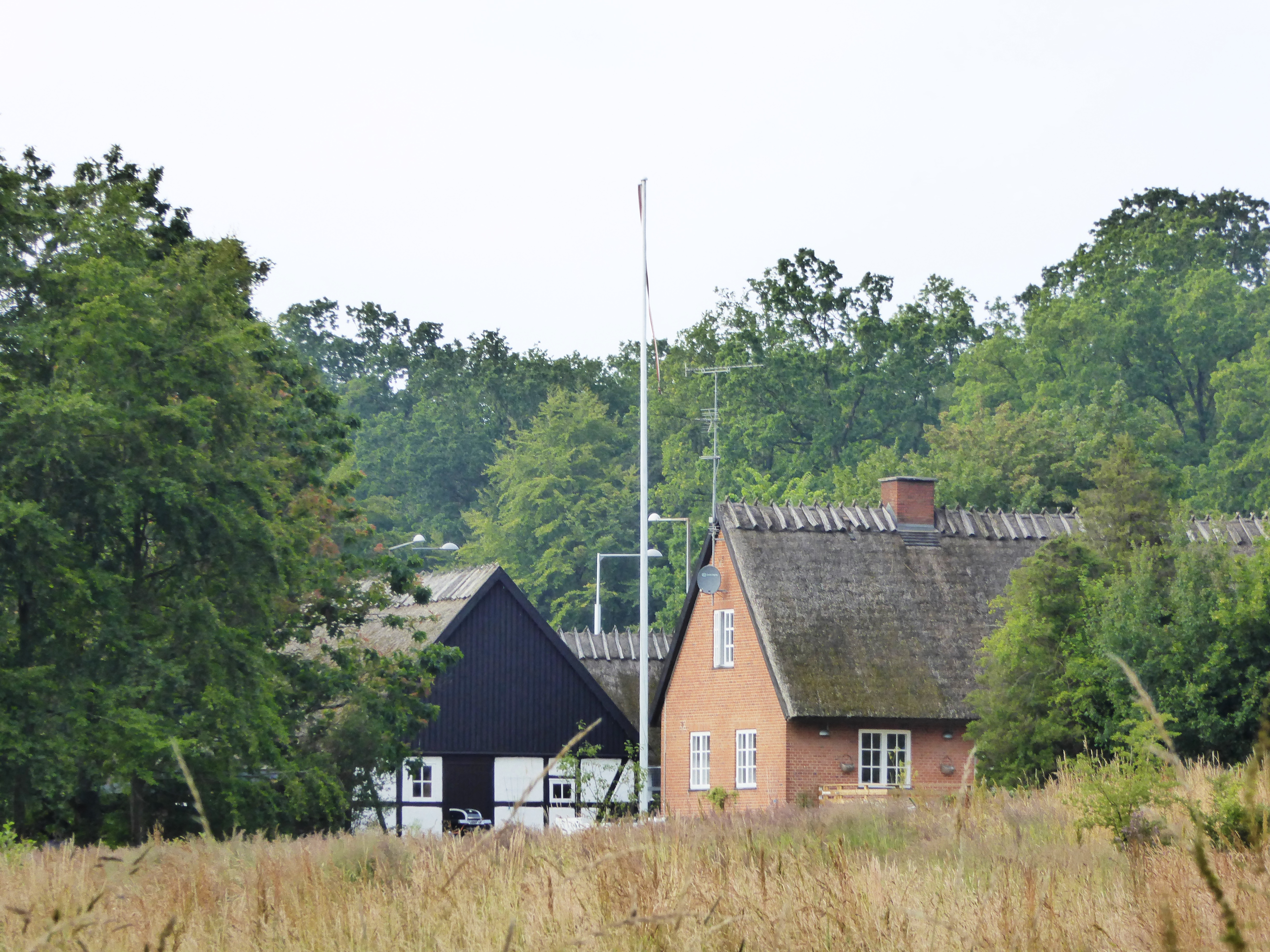 Hingsterhus in Store Dyrehave in Hillerød, Denmark